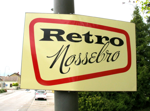 Retro Nossebro in Essunga Municipality, Sweden